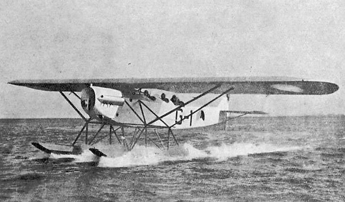 Fokker C.VIII W photo from Annuaire de L'Aéronautique 1931